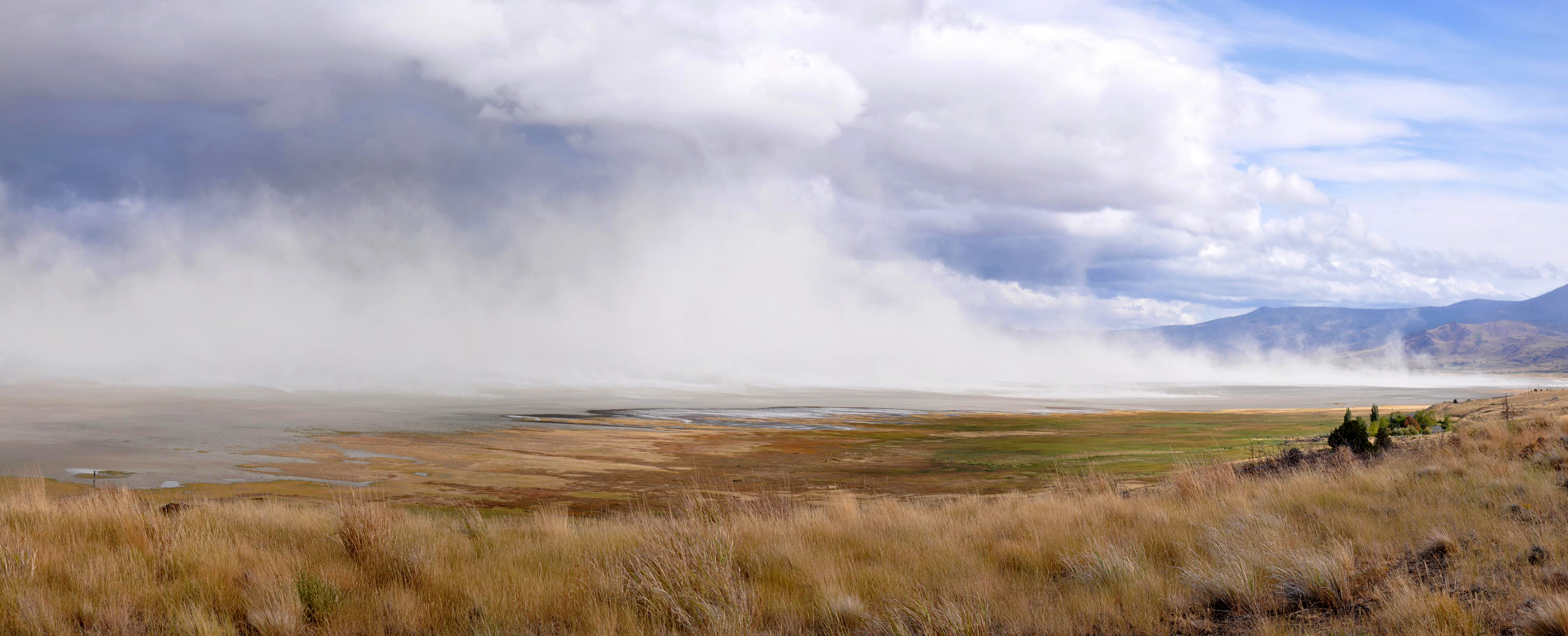 Clouds of dust swirl above Summer Lake, a large, shallow alkali lake in south-central Oregon in the United States. Water levels in the lake fluctuate widely, and in summer the lake can become almost dry. View is to the southeast from a hill near the base of Winter Ridge, visible on the right. Originally 10 vertical images.